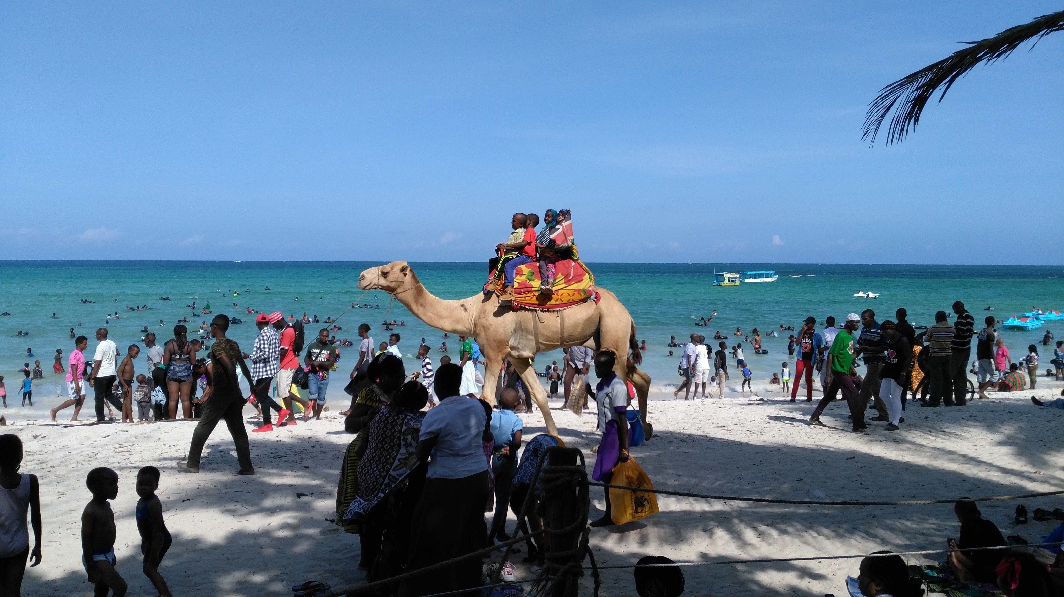 This is an image with the theme "Play" from: Kenya